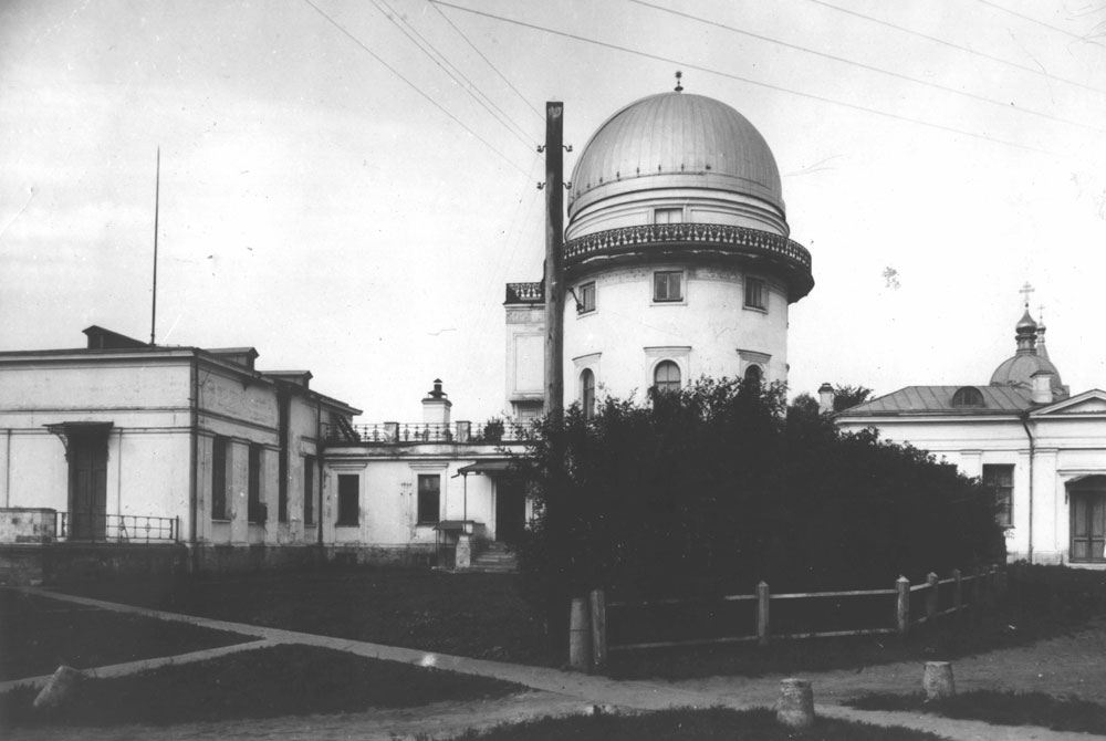 Moscow observatory in 1900y